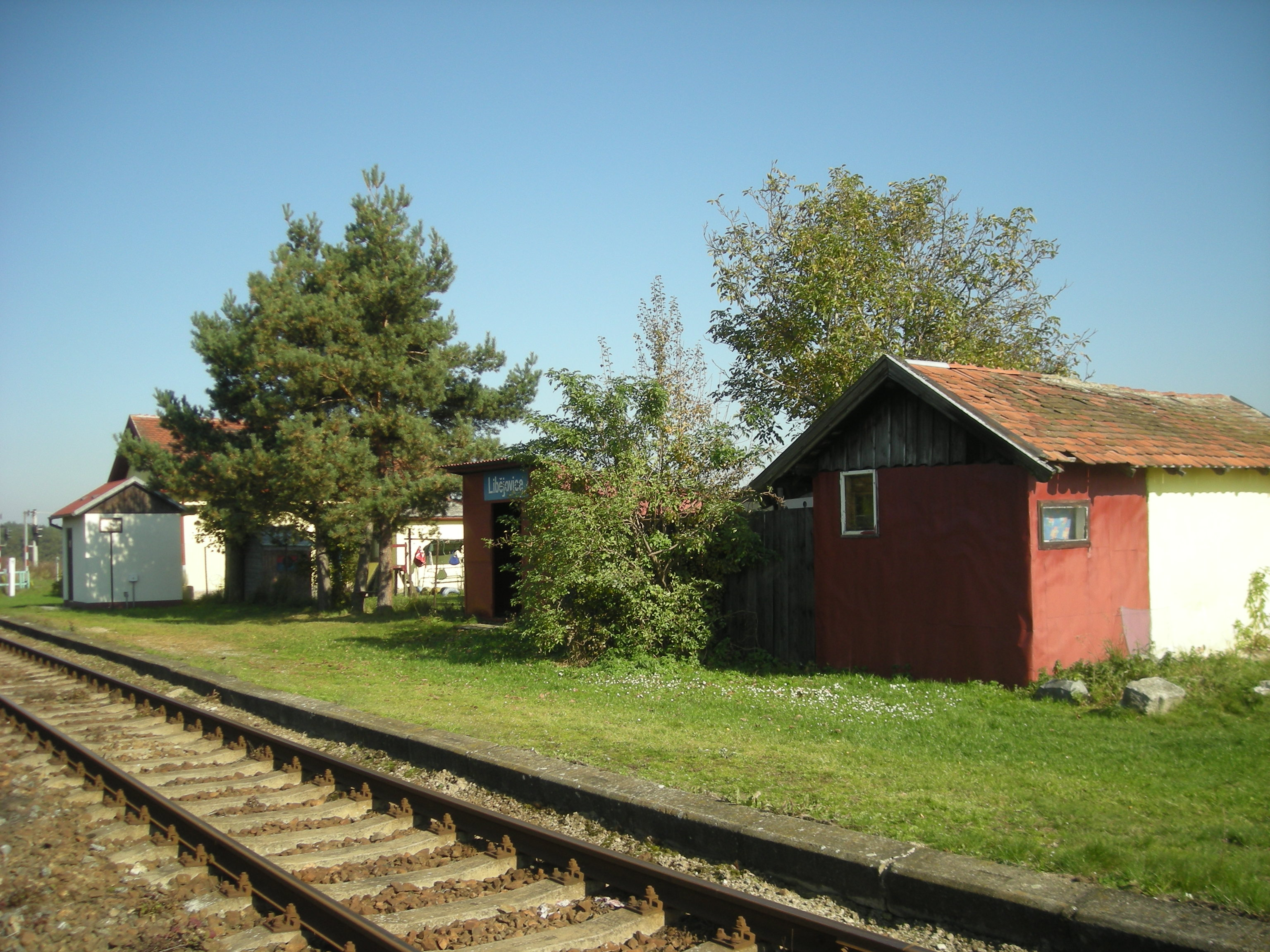 Train stop in Libějovice, Czech Republic, on secondary line from Dívčice to Netolice.